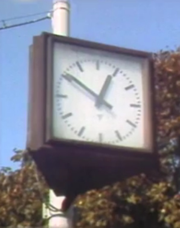 Prague street clocks from 1960s.